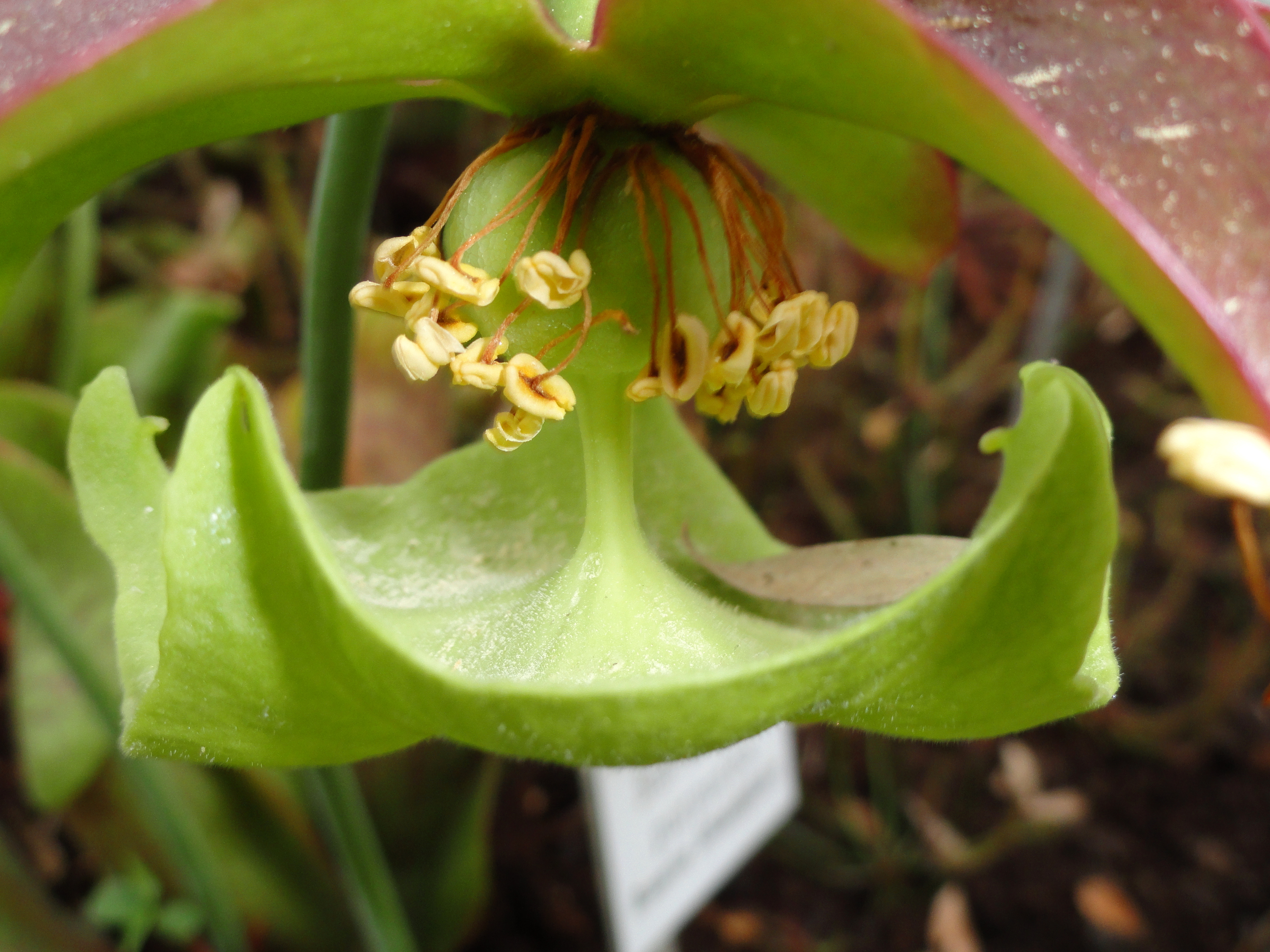 Sarracenia purpurea specimen in the Botanischer Garten Freiburg, Freiburg im Breisgau, Baden-Württemberg, Germany.